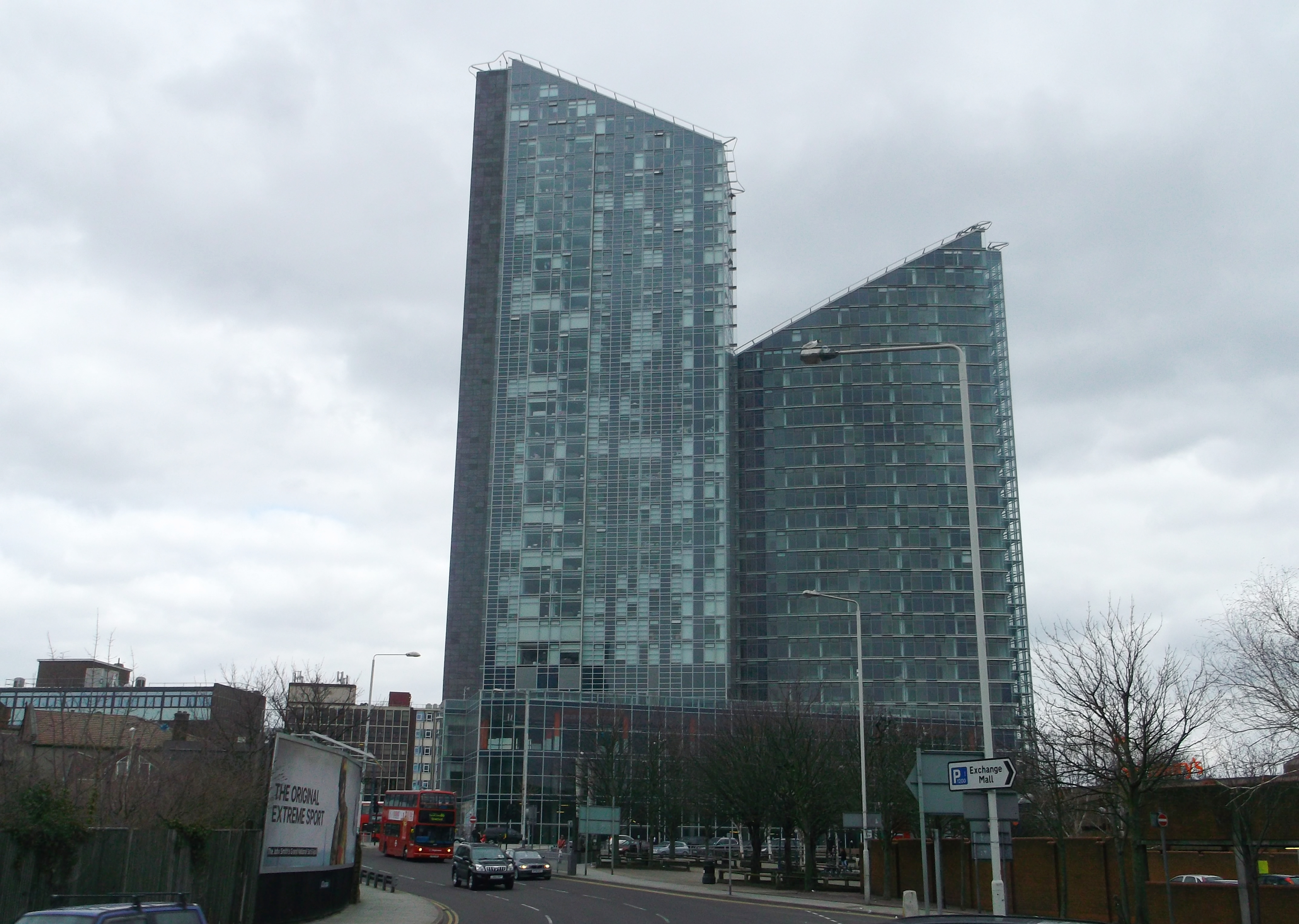 Poineer Point, Ilford